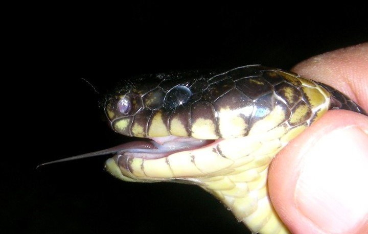 Banded Krait Bungarus fasciatus Daudin 1803 Photo of head. Photo of Banded Krait captured in Binnaguri, North Bengal, India on 19 Sep 2006. Being an Elapid, it has no loreal scale between nasal and pre-ocular scales. Self-work. AshLin 19:12, 20 September 2006 (UTC)